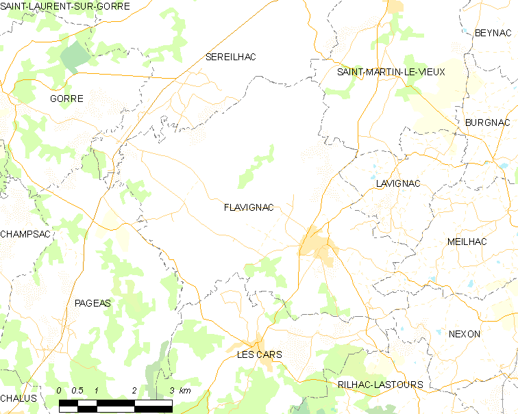 Map of French municipality Flavignac